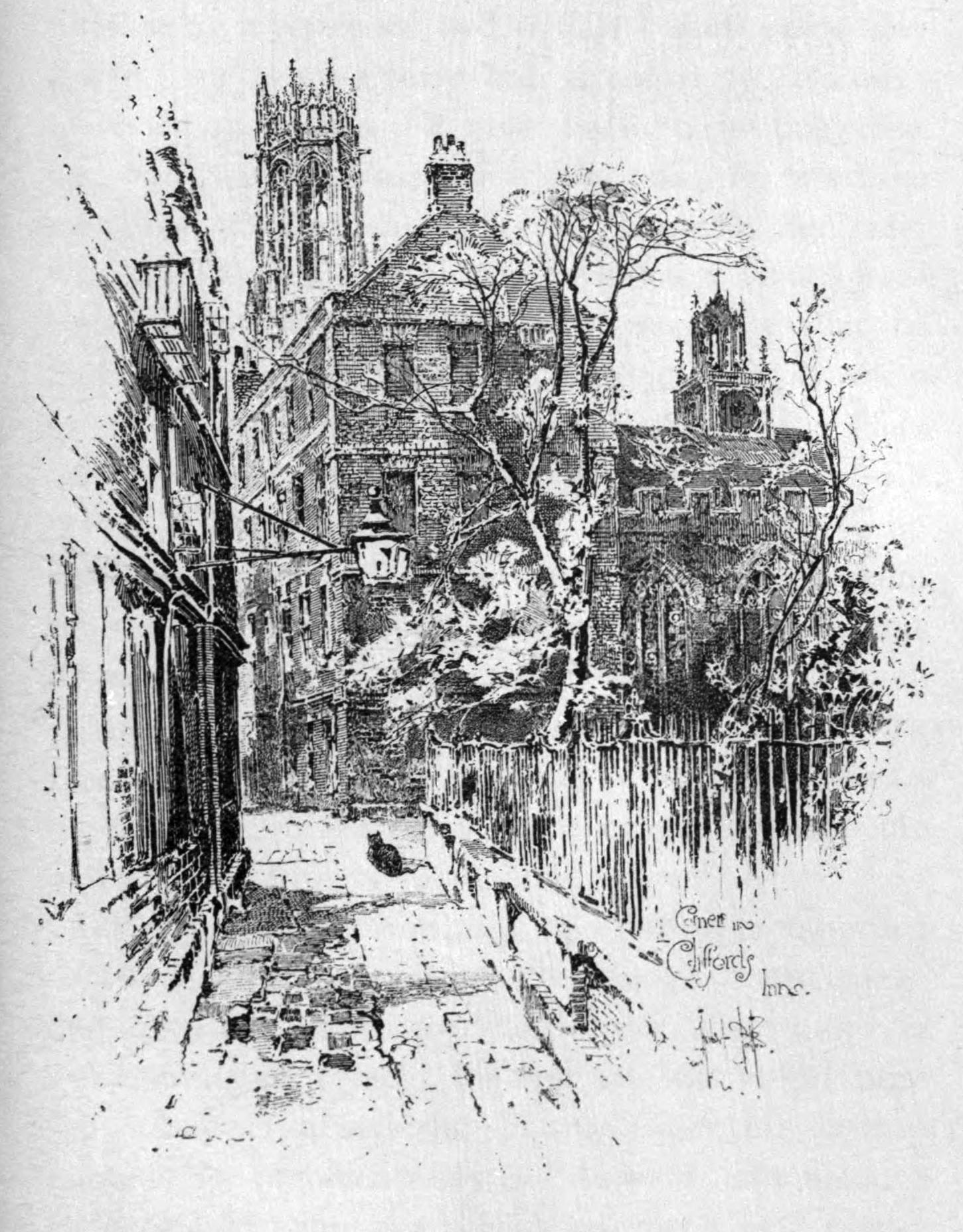 Herbert Railton's illustration of a corner of Clifford's Inn